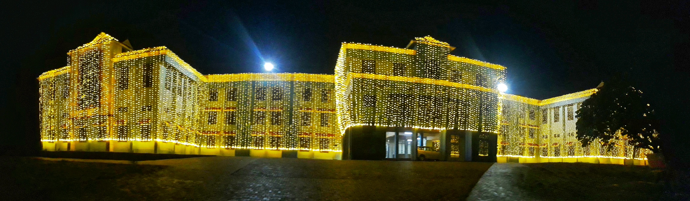 TMC academic block on 2012 MBBS Batch Convocation Ceremony on 31st July 2018